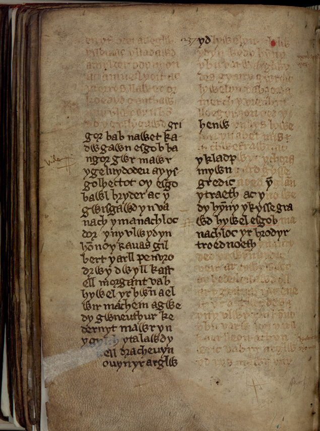 'Brut y Tywysogion' (The Chronicle of the Princes) is a translation of a lost Latin work, the Cronica Principium Wallie. The Cronica, in turn, was based on the annales that were kept by churches and monasteries